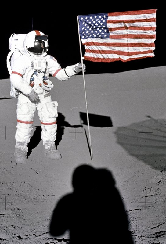 Astronaut Alan B. Shepard Jr., commander of the Apollo 14 lunar landing mission, stands by the deployed United States flag on the lunar surface during the early moments of the first extravehicular activity (EVA) of the mission. Shadows of the Lunar Module (LM), astronaut Edgar D. Mitchell, lunar module pilot, and the erectable S-Band Antenna surround the scene of the third flag implanting to be performed on the lunar surface. While astronauts Shepard and Mitchell descended in the LM "Antares" to explore the Fra Mauro region of the moon, astronaut Stuart A. Roosa, command module pilot, remained with the Command and Service Modules (CSM) "Kitty Hawk" in lunar orbit.